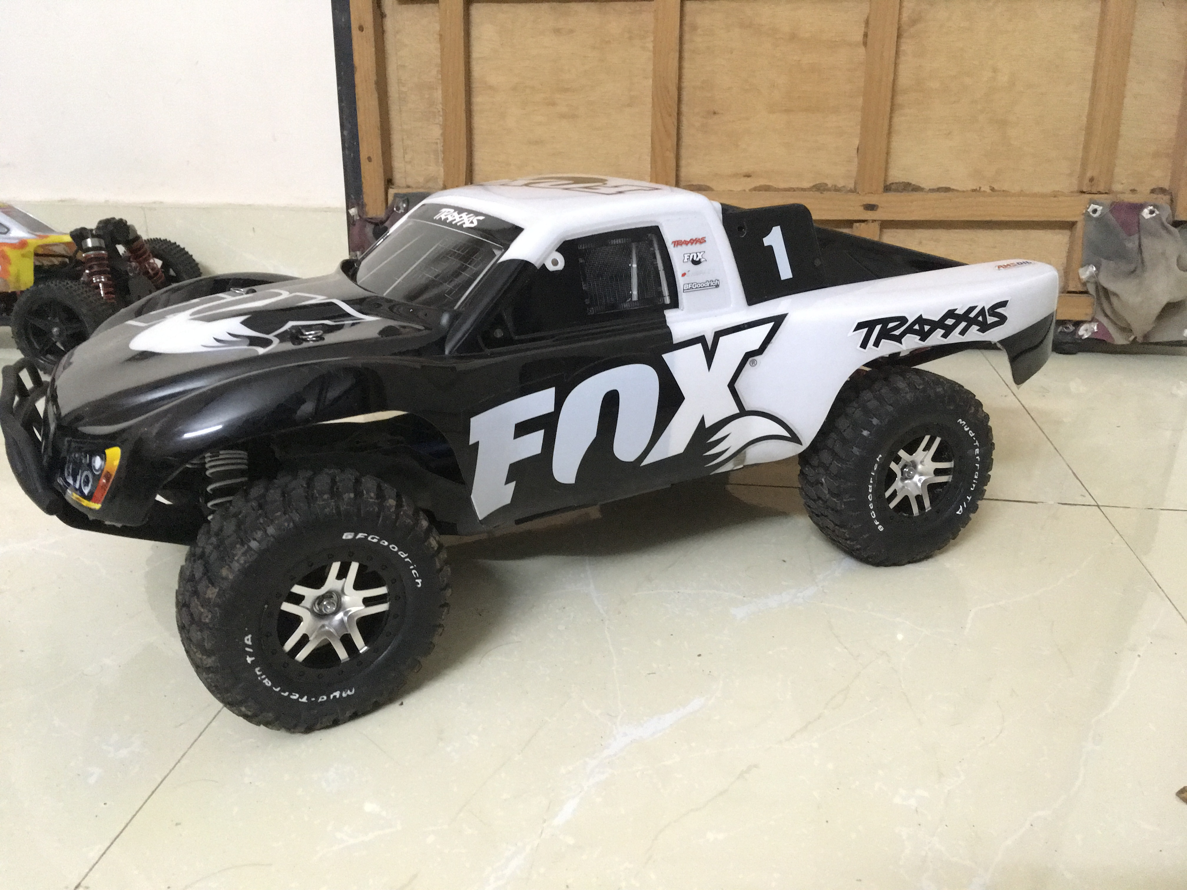 Traxxas Slash 4x4 TSM OBA 68086-24 Model